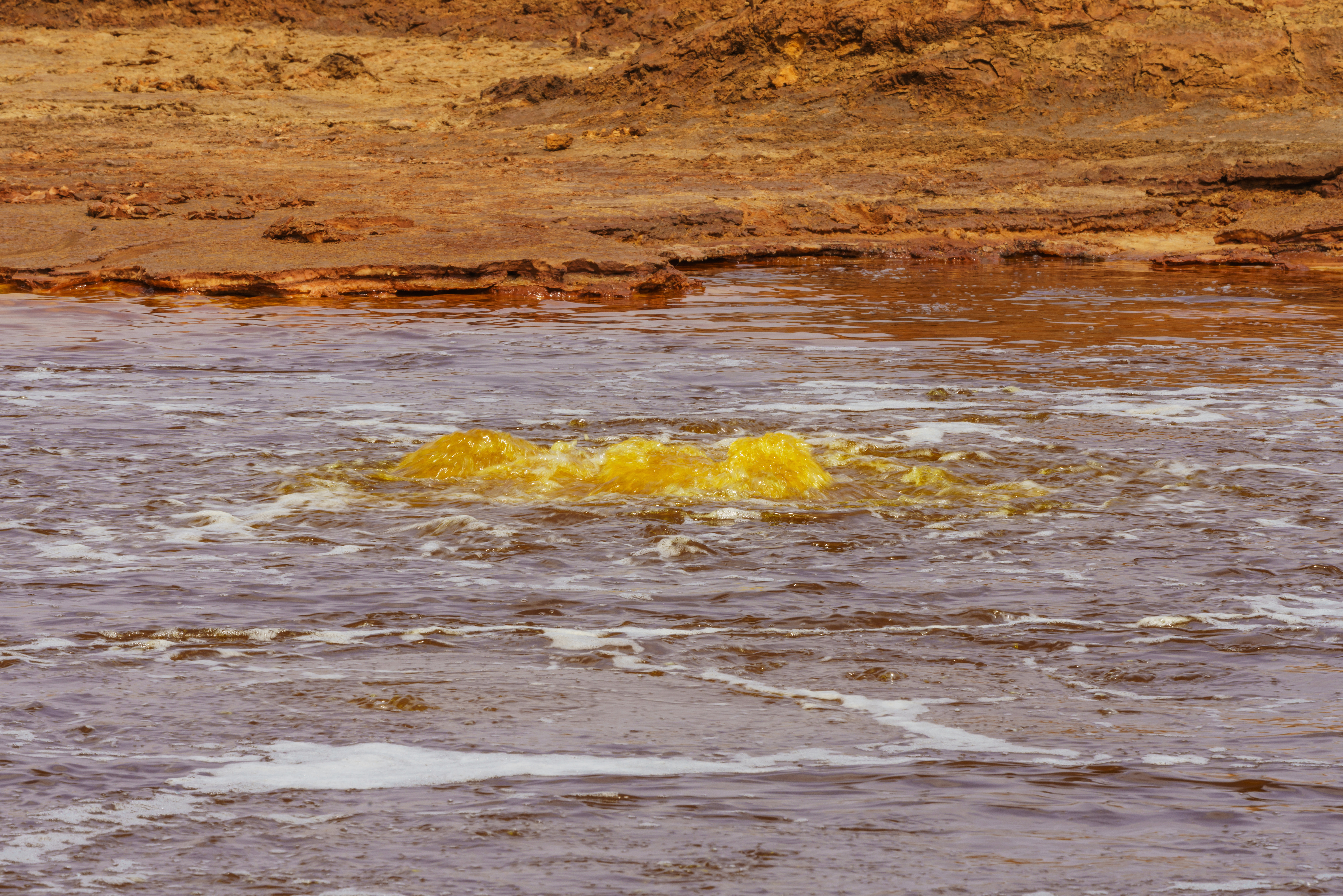 Lake with hot springs (Gaet'ale Pond) – landscape at Dallol volcano, Afar Region, Ethiopia